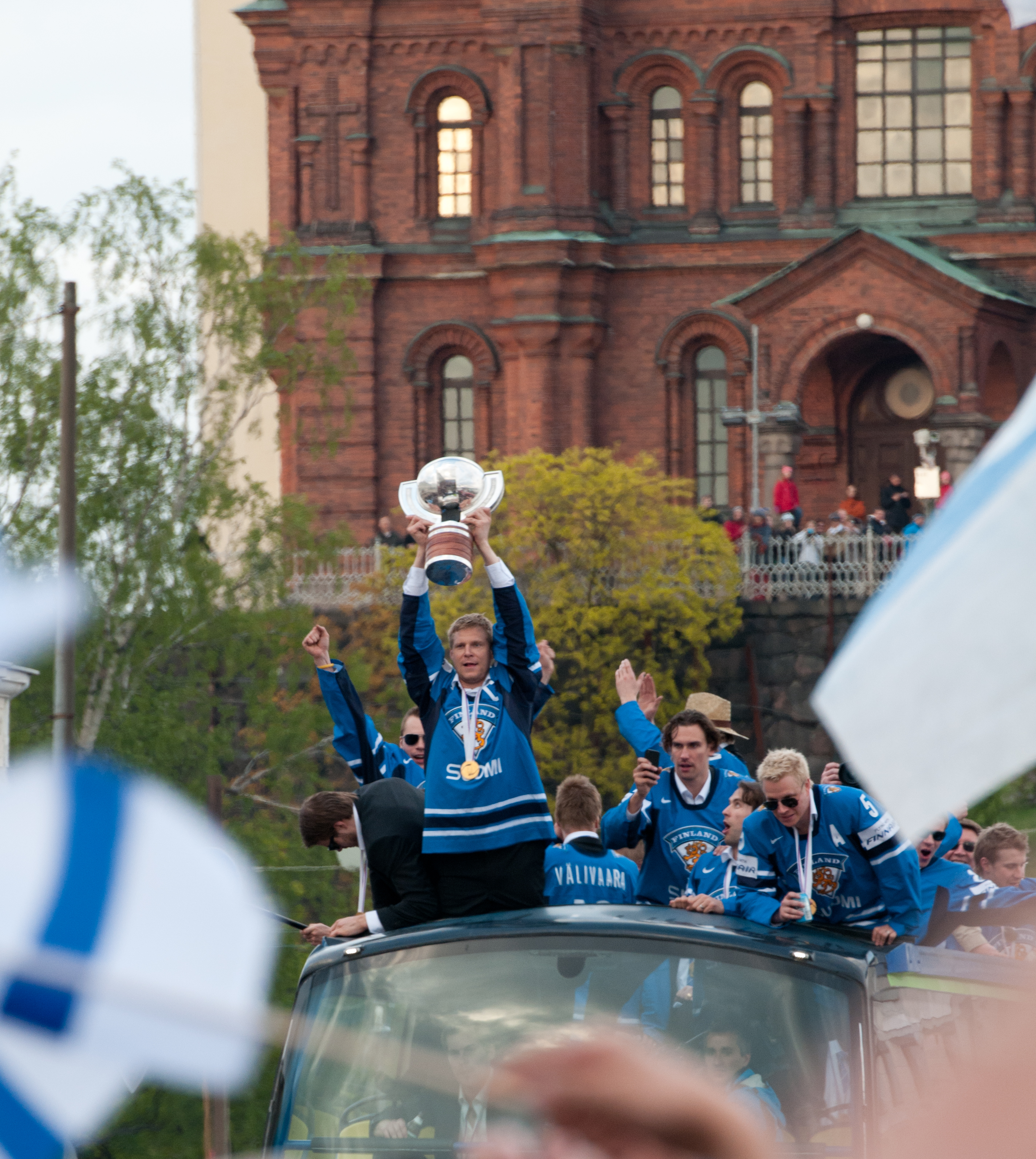 2011 IIHF World Championship gold medal celebrations in Helsinki